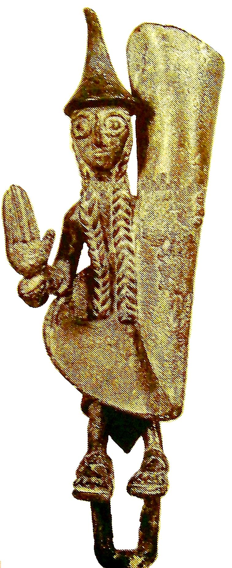 Nuragic bronze- Rome - Villa Giulia Museum